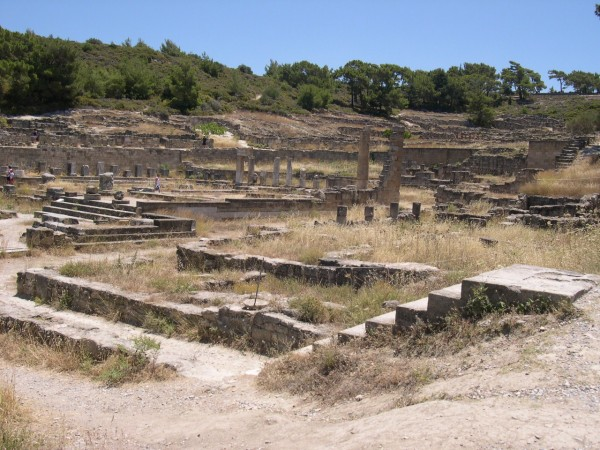 Ruins of the ancient Greek city of Kameiros, Rhodes Island, Greece.